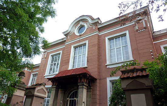 Vassil Aprilov Primary School, 40 Shipka str., Sofia